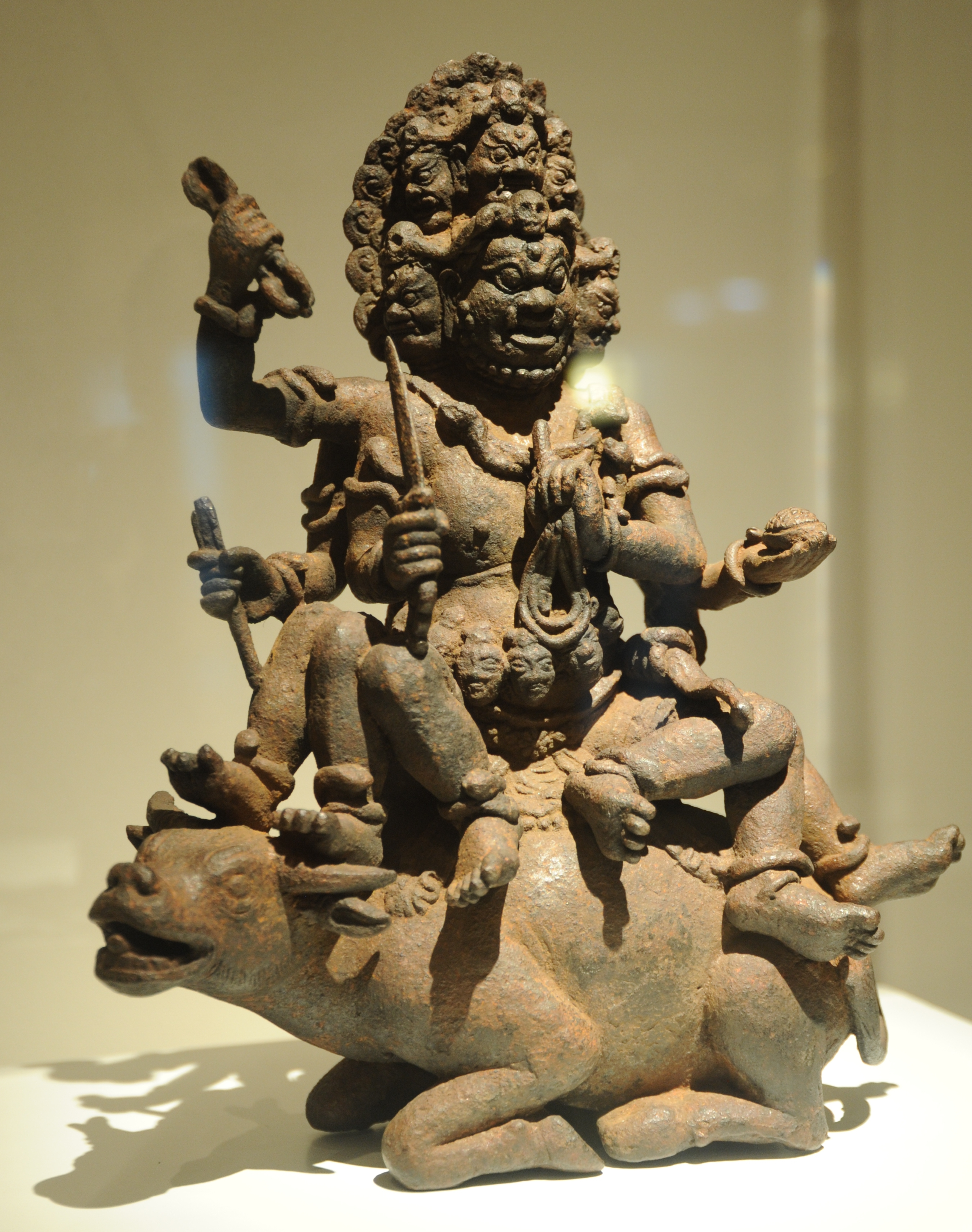 Yamantaka, Fear-Striking Vajra, Destroyer of Death (Tibetan: Gshin-rje-gshed), multiheaded, holding vajra, rope, dagger, riding a water buffalo, statue of a guardian, enormous strength, Tibetan Esoteric Buddhism, Art Institute, Chicago